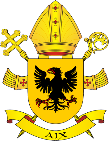 Coat of Arms of archdiocese of Aix in France